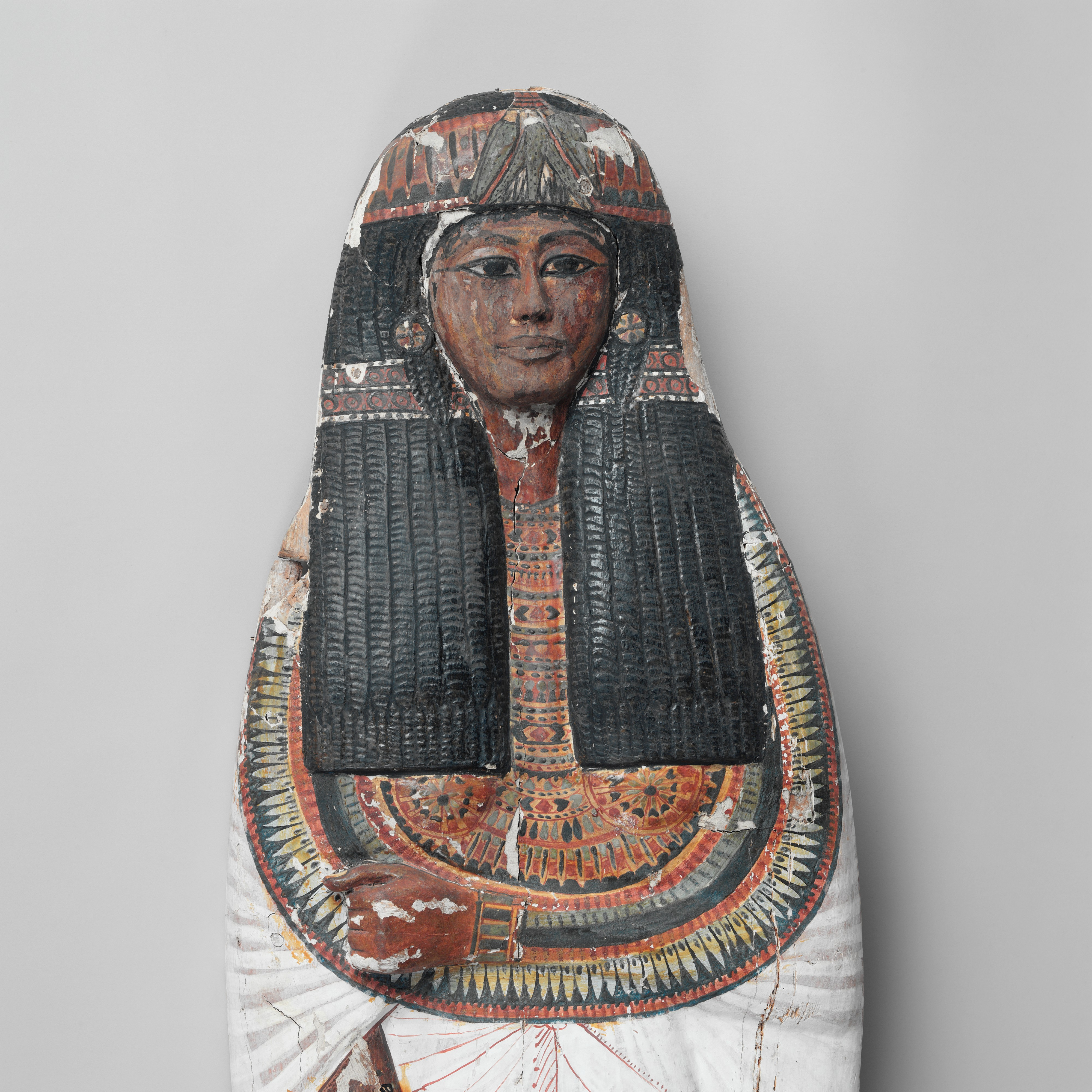 Mummy board, Iineferty